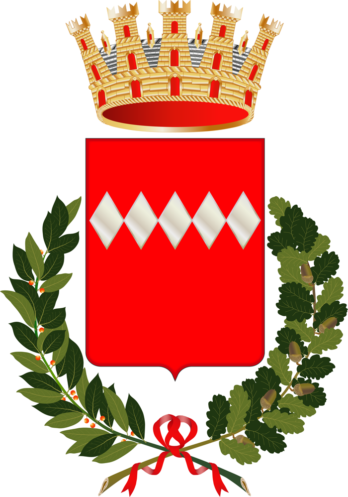 Sorrento's coat of arms